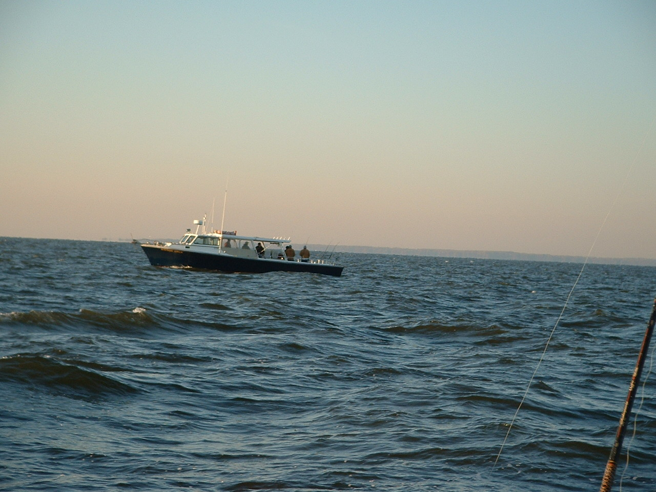 A charter fishing boat on the Chesapeake Bay